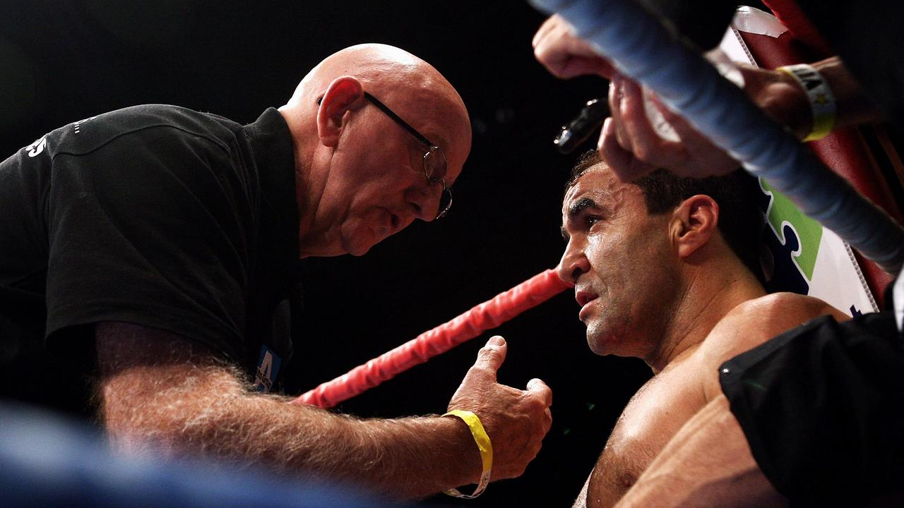 Johnn Lewis cornering Jeff Fenech in his last fight against Azumah Nelson in 2008